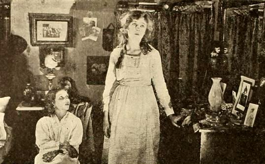 Still from the American film Forbidden (1919) with Mildred Harris, page 718 of the July 19, 1919 Motion Picture News.